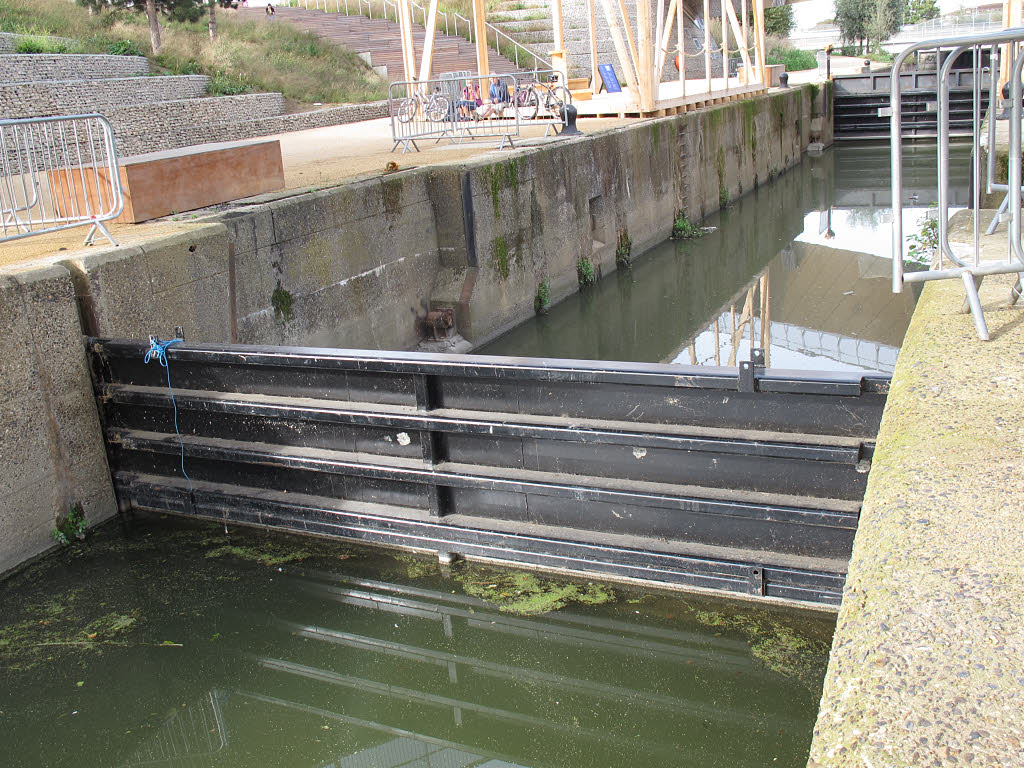 Carpenters Road Lock within the Olympic Park